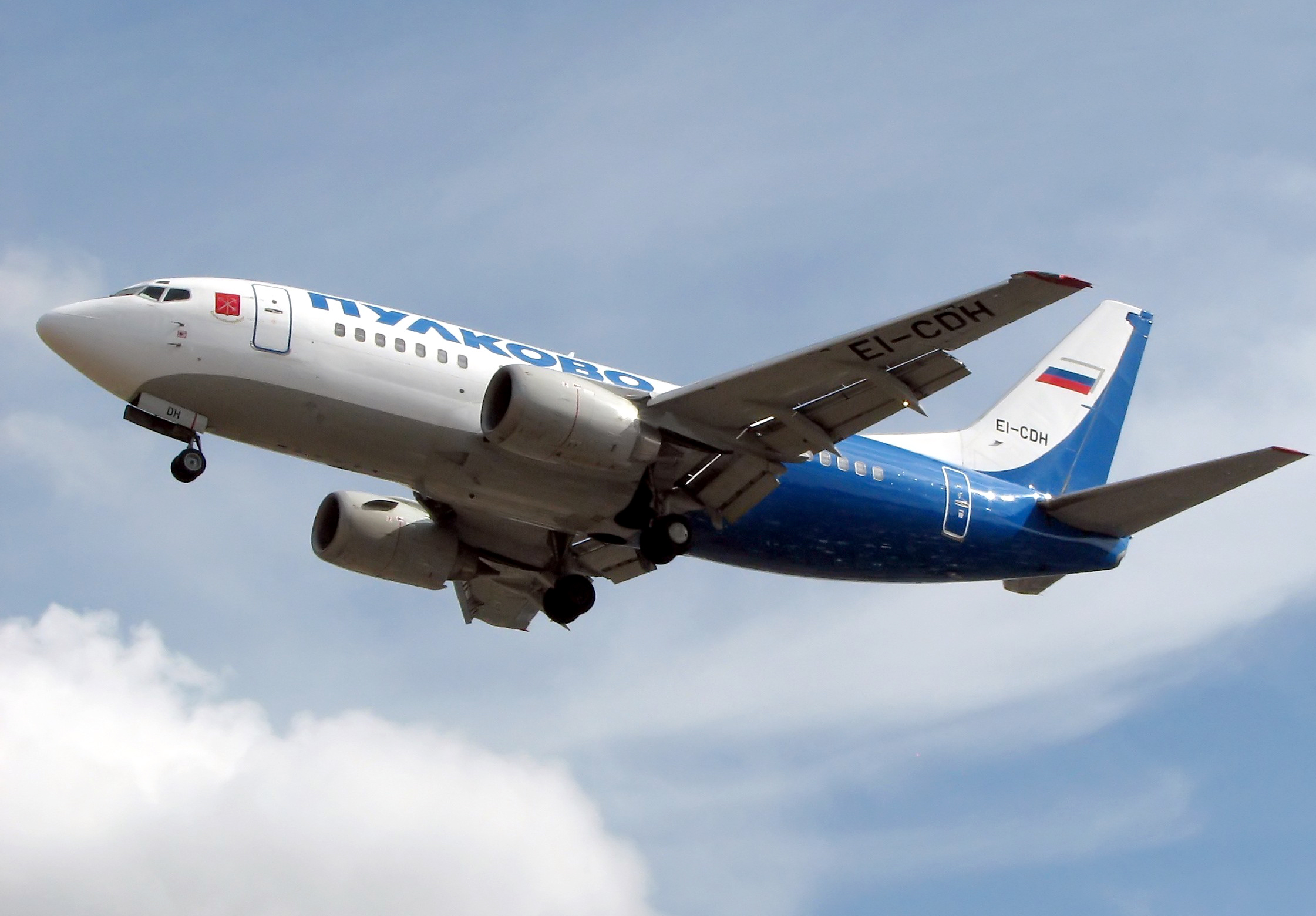 Pulkovo Aviation Enterprises Boeing 737-500 (EI-CDH) landing at London Heathrow Airport, England. This aircraft has an Irish registration because it was previously owned by Aer Lingus. Photographed by Adrian Pingstone on July 29th 2006 and released to the public domain.